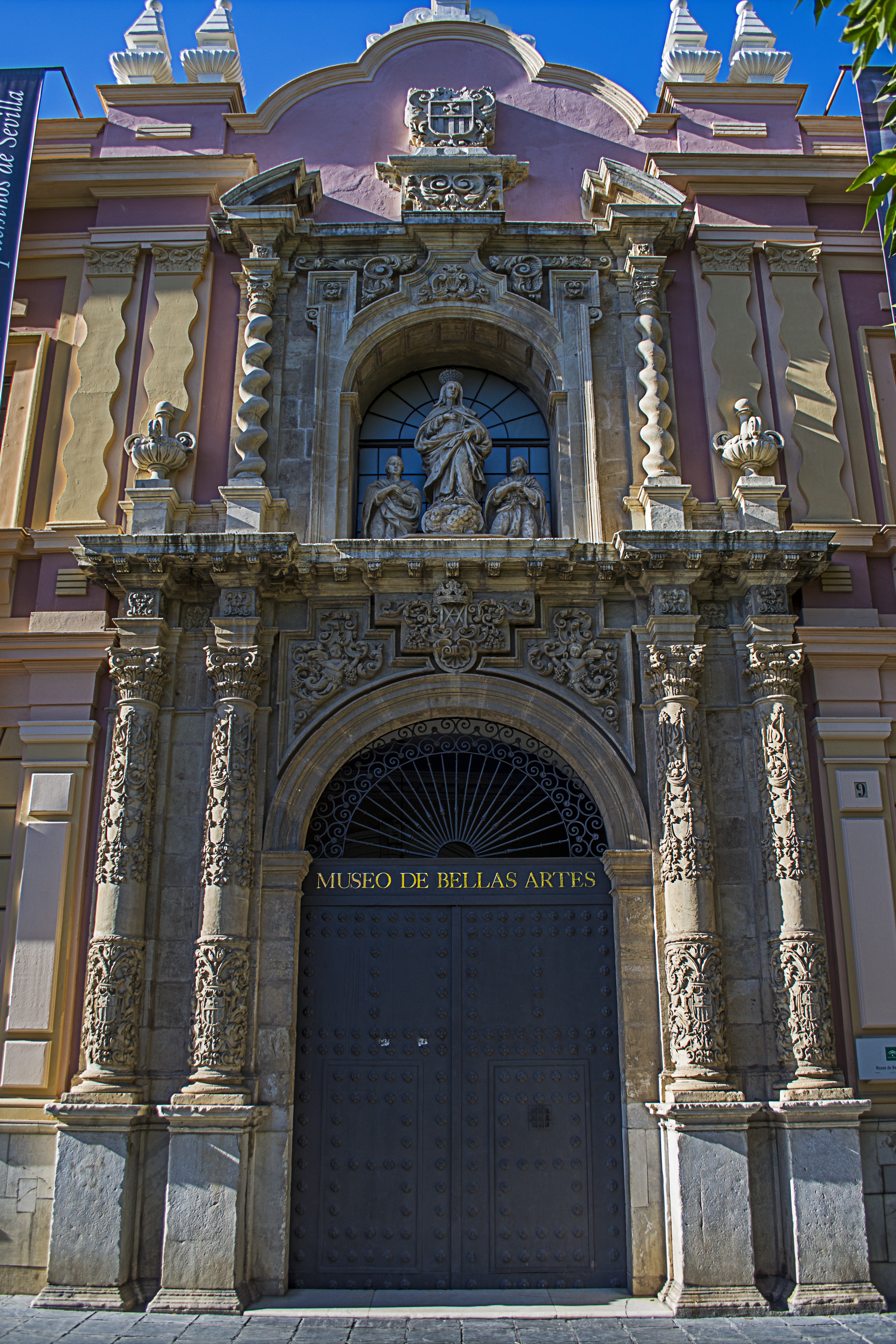 Main gate of Fine Arts Museum of Seville